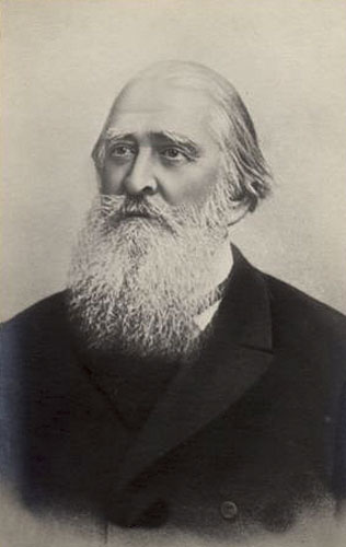 Russian poet Alexey Nikolayevich Plescheev